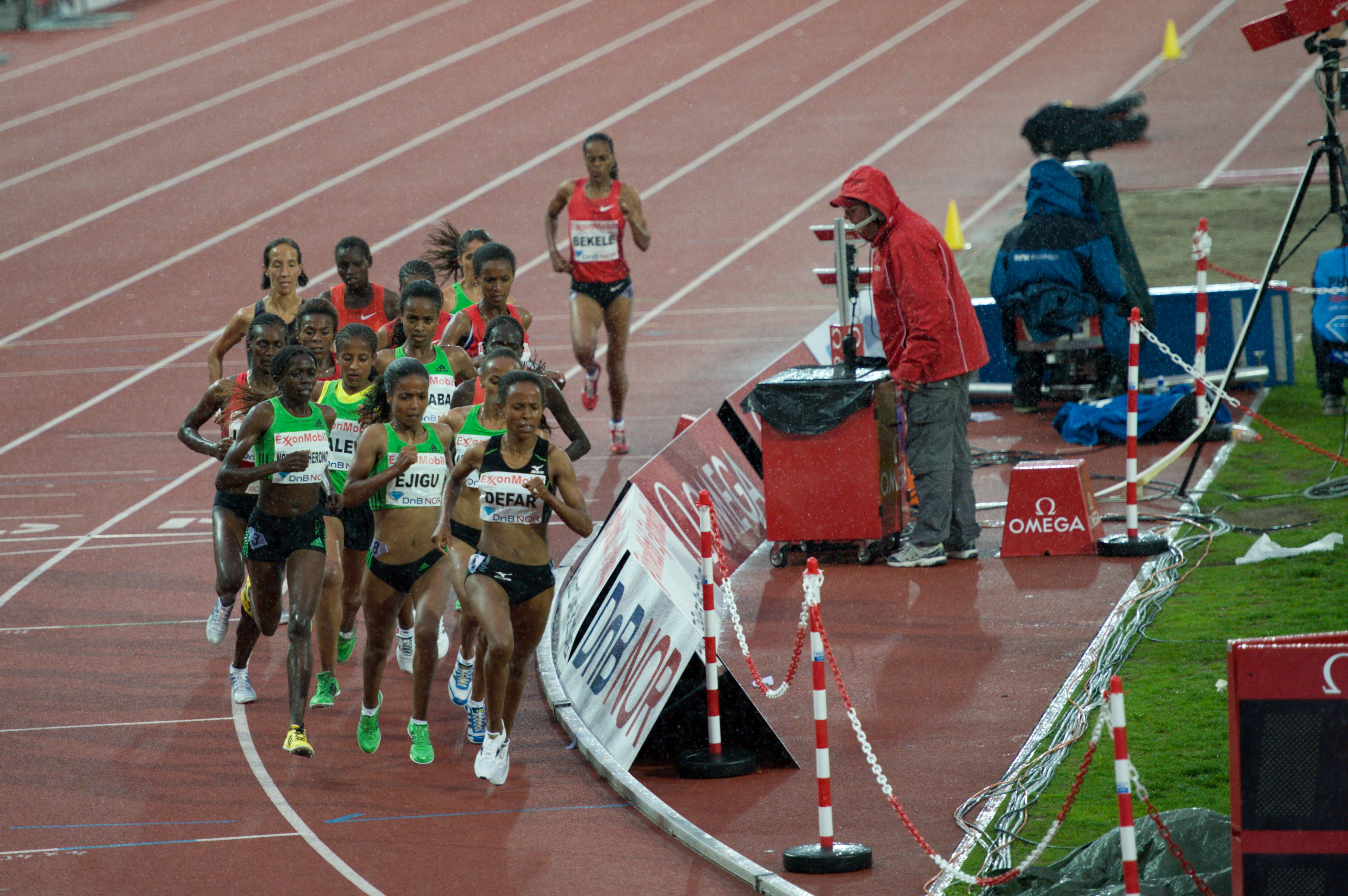 Meseret Defar winning 5000 m Grethe Waitz Memorial run at Diamond League Bislett Games 2011